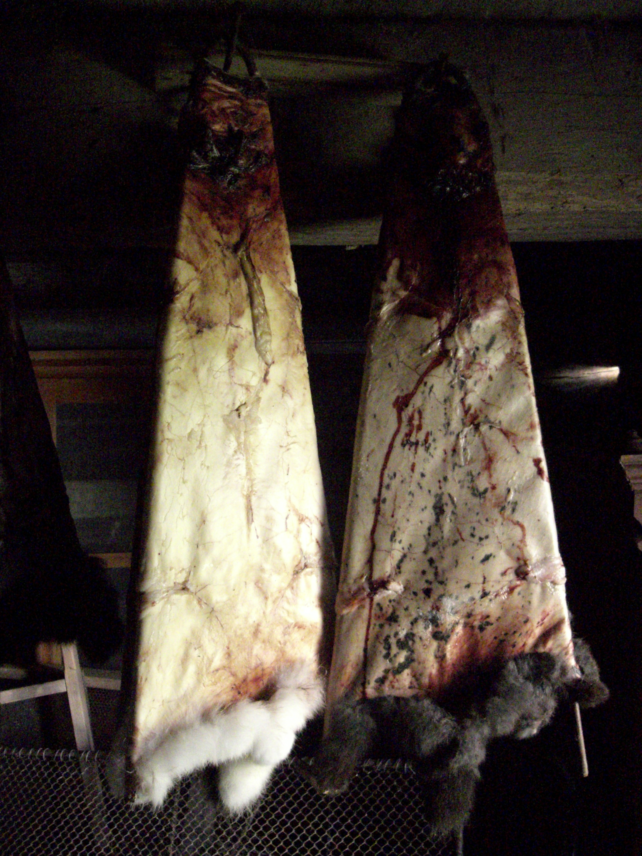 Skins from domestic rabbits. Czech countryside